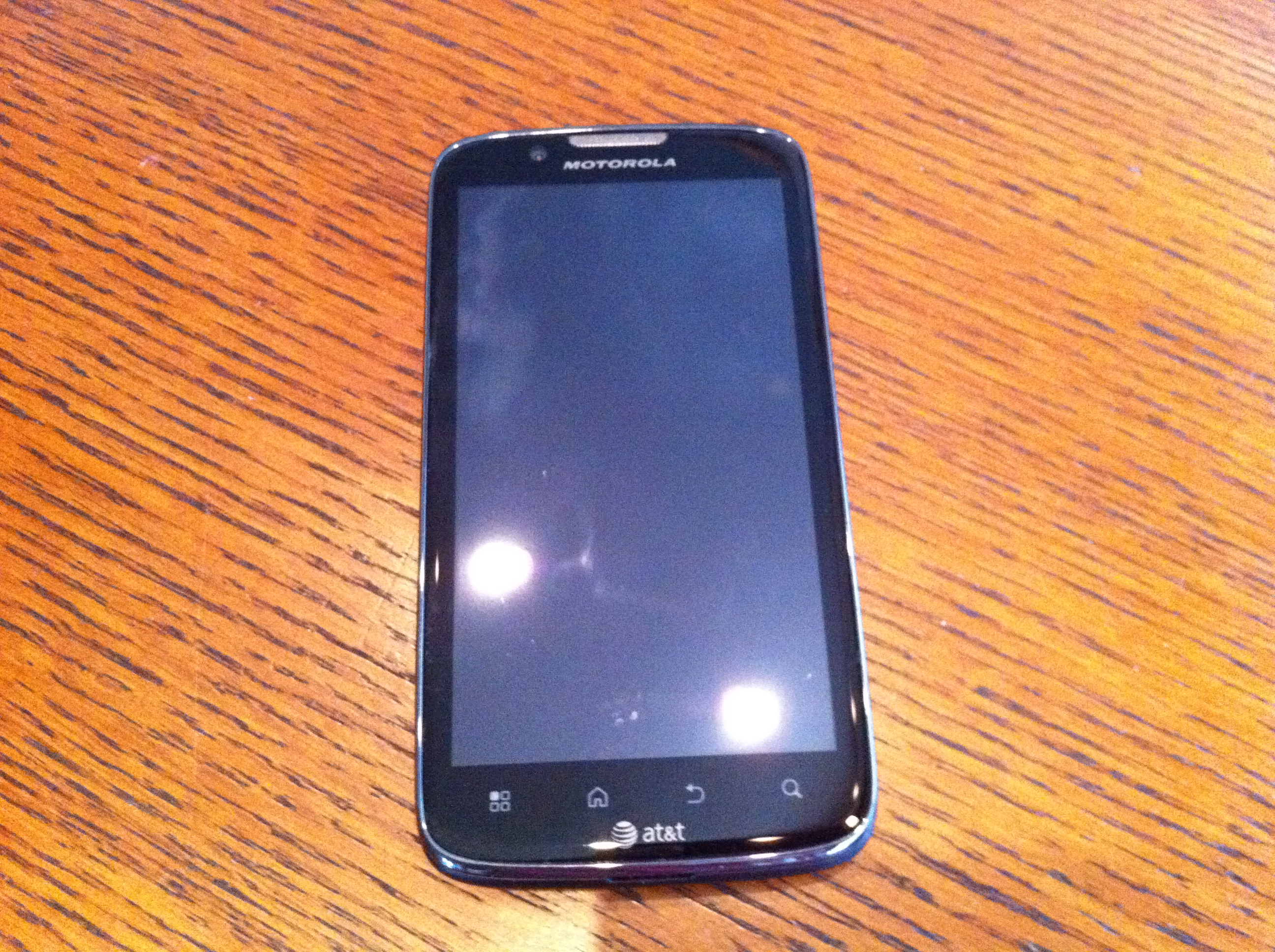 This is a picture of my Motorola Atrix 2.